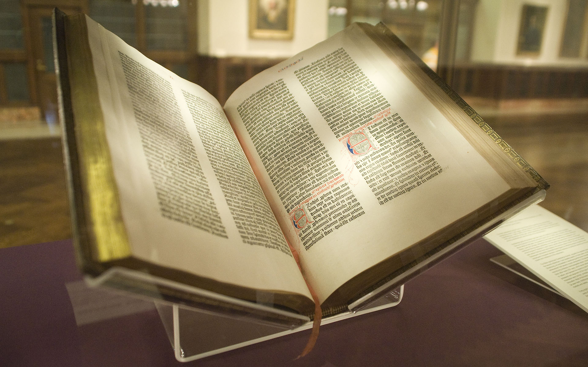 The Gutenberg Bible [Bible, Latin Vulgate. Ca. 1455]. Biblia Latina. [Mainz: Johann Gutenberg, ca. 1455]. Rare Books Division. From the Lenox Library The first substantial printed book is this royal-folio two-volume Bible, comprising nearly 1,300 pages, printed in Mainz on the central Rhine by Johann Gutenberg (ca. 1390s-1468) in the 1450s. It was probably completed between March 1455 and November of that year, when Gutenberg's bankruptcy deprived him of his printing establishment and the fruits of his achievements. The Bible epitomizes Gutenberg's triumph, arguably the greatest achievement of the second millennium. Forty-eight integral copies survive, including eleven on vellum. Perhaps some 180 copies were originally produced, including about 45 on vellum. The Lenox copy, on paper, is the first Gutenberg Bible to come to the United States, in 1847. Its arrival is the stuff of romantic national folklore. James Lenox's European agent issued Instructions for New York that the officers at the Customs House were to remove their hats on seeing it: the privilege of viewing a Gutenberg Bible is vouchsafed to few. (Shortened text copied from placard seen in the background)